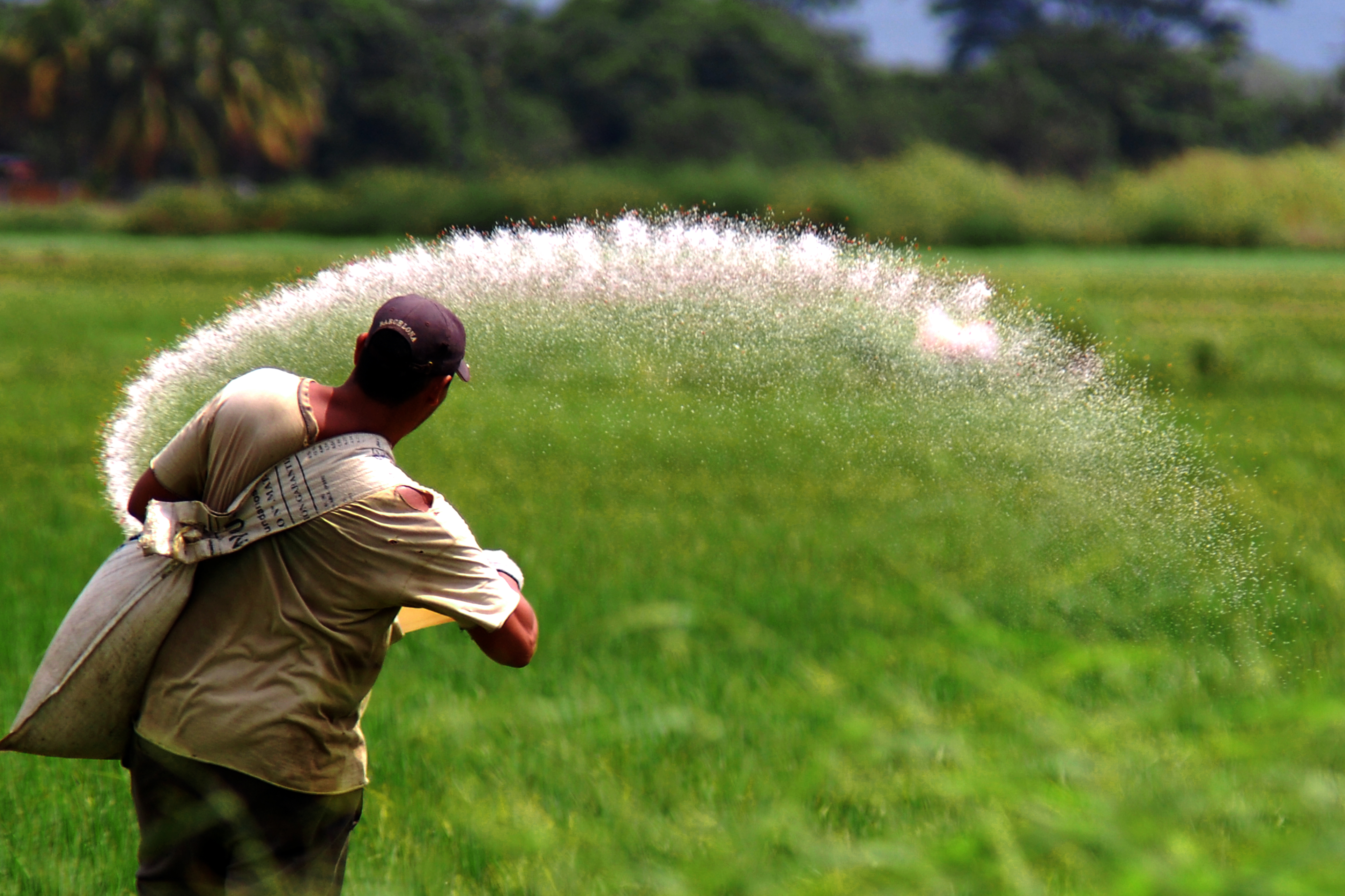 El arroz es el primer rubro agrícola del Estado Portuguesa, por eso podemos ver desde las carreteras faenas de preparacion, siembra y cosecha. En este caso, fotografía tomada durante un abonamiento de la tierra. Municipio Turén, Estado Portuguesa.